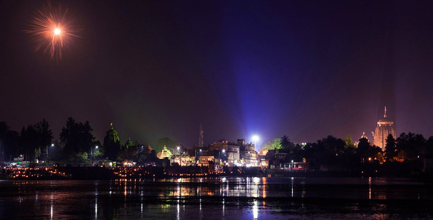 Light and Sound show in Bindusagar lake